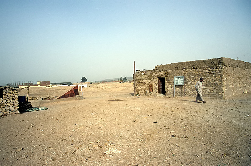 Tombs of Djed-Amūn-ef-'anch (left) and Baennentiu (right), Qarat Qasr Salim, el-Bahriya depression, Libyan desert, Egypt